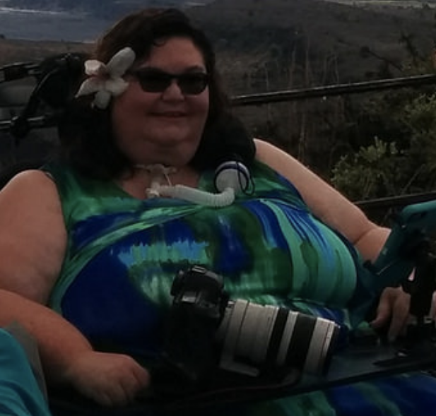 Photo of Carrie Ann Lucas in Hawaii at the top of Mount Kilauea overlooking the volcano crater. She is wearing a flowered sundress, sunglasses, and a flower in her hair.